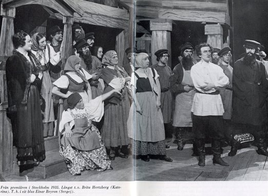 Lady Macbeth från Mzensk = Леди Макбет Мценского уезда = Lady Macbeth of the Mtsensk District. Opera by Dmitri Shostakovich. Premiere at the Stockholm Opera 1935.